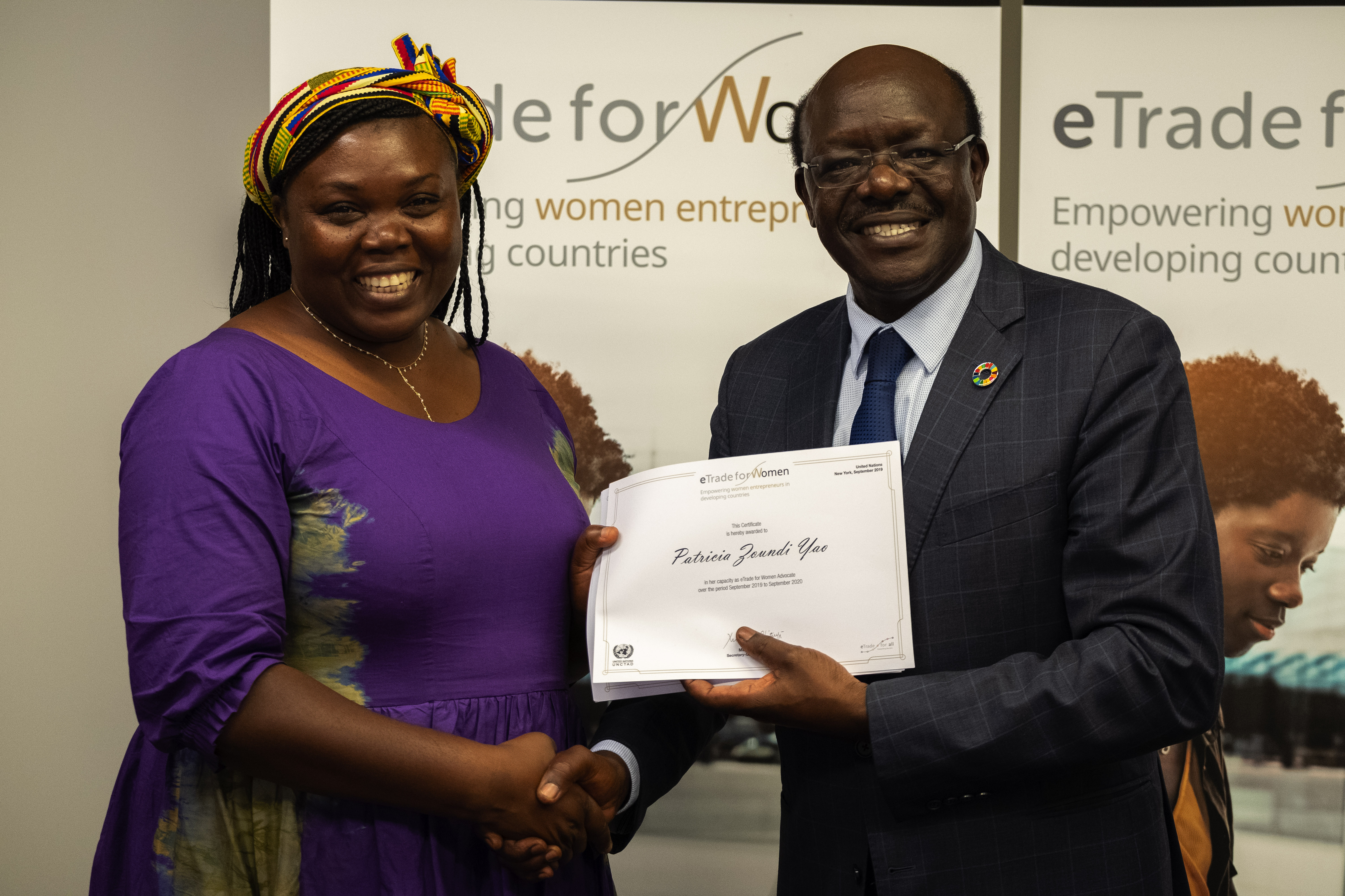 Patricia Zoundi Yao loaded by Victuallers